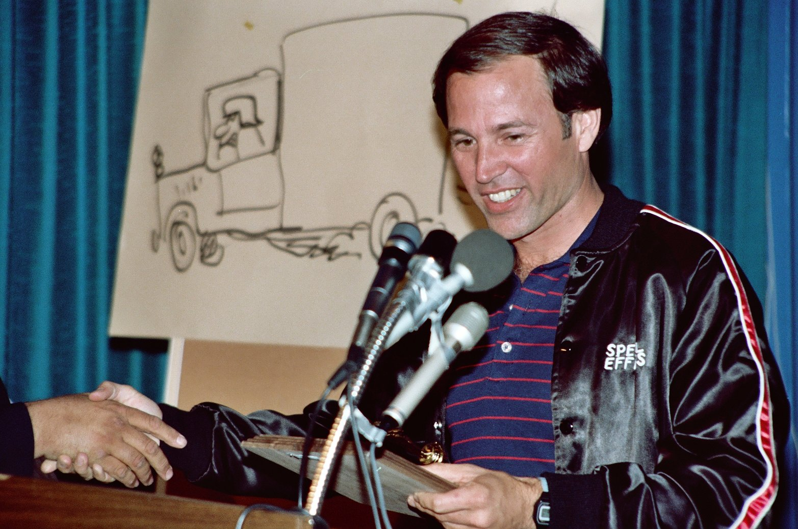 1982 San Diego Comic-Con International. Scanned from the original 35MM film negative. NOTE: Permission granted to copy, publish, broadcast or post any of my photos, but please credit "photo by Alan Light" if you can. Thanks.